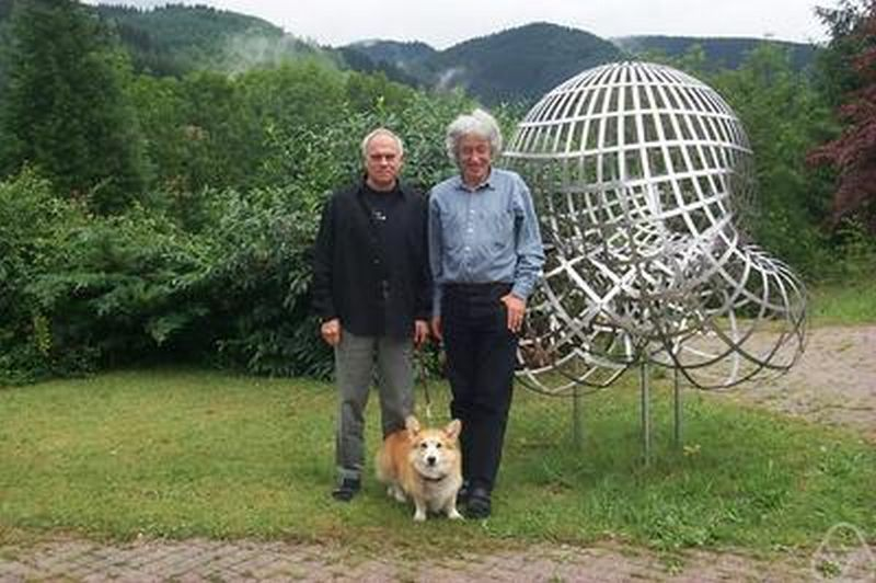 Frank Quinn (left), Andrew Ranicki, Oberwolfach 2003